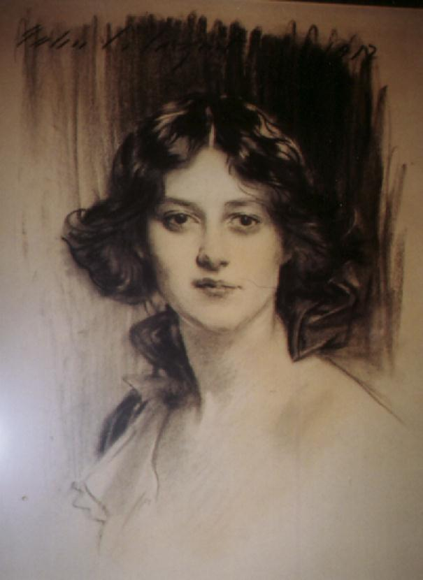 Lady Elizabeth Asquith, after Princess Elizabeth Bibesco